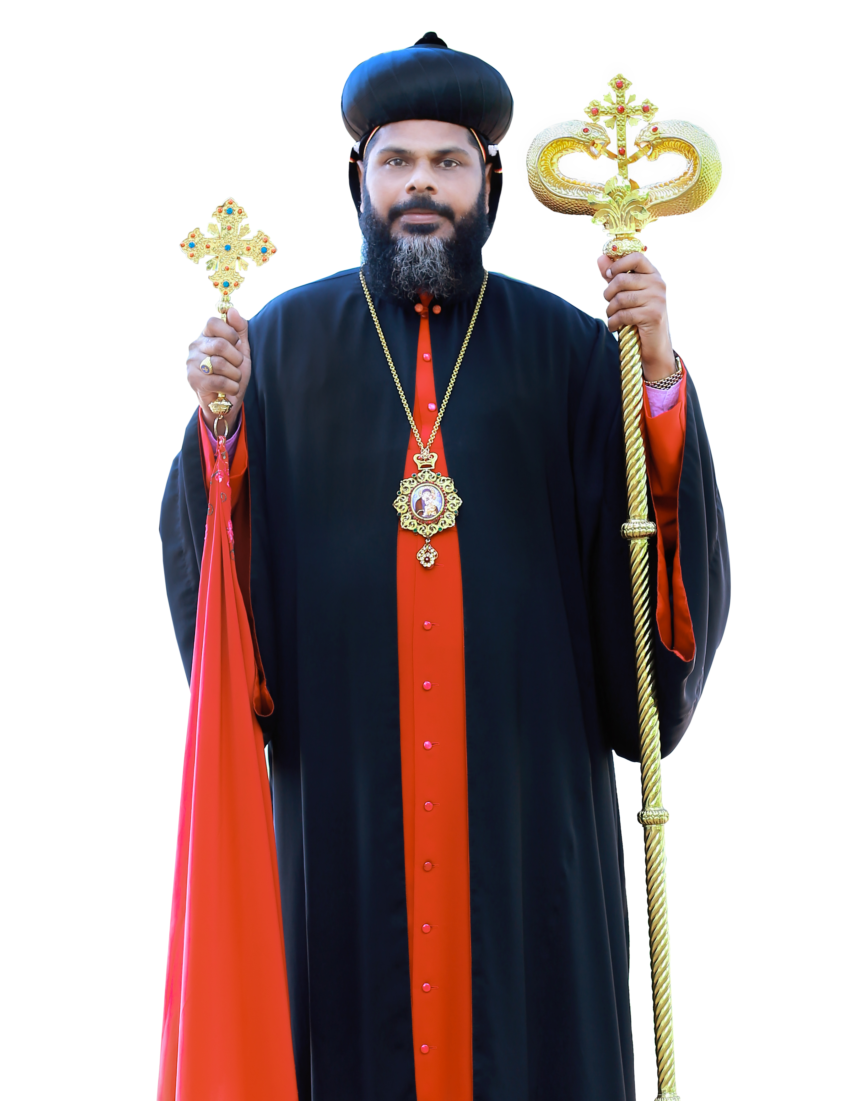 Portrait of H.E Mor Chrysostomos Markose Metropolitan